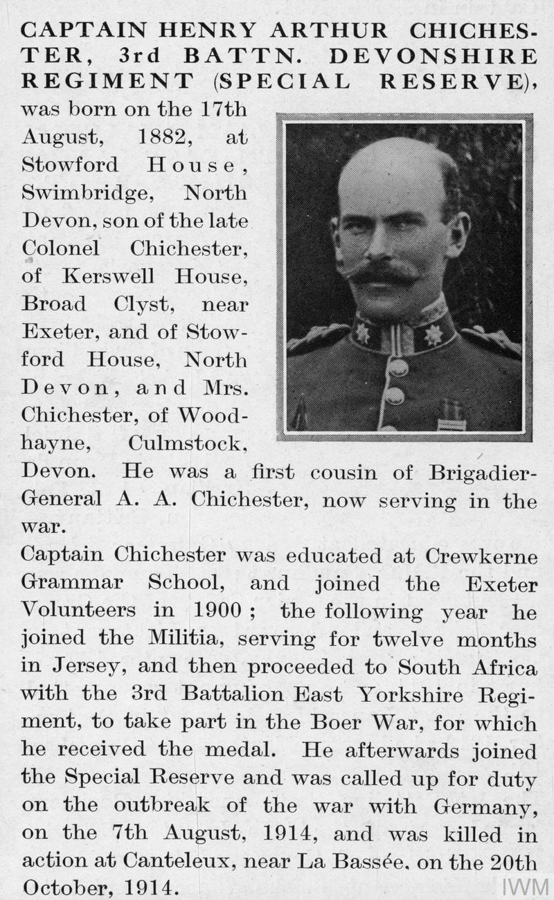 Obituary for Captain Henry Arthur Chichester of the 3rd Battalion (Special Reserve), Devonshire Regiment.